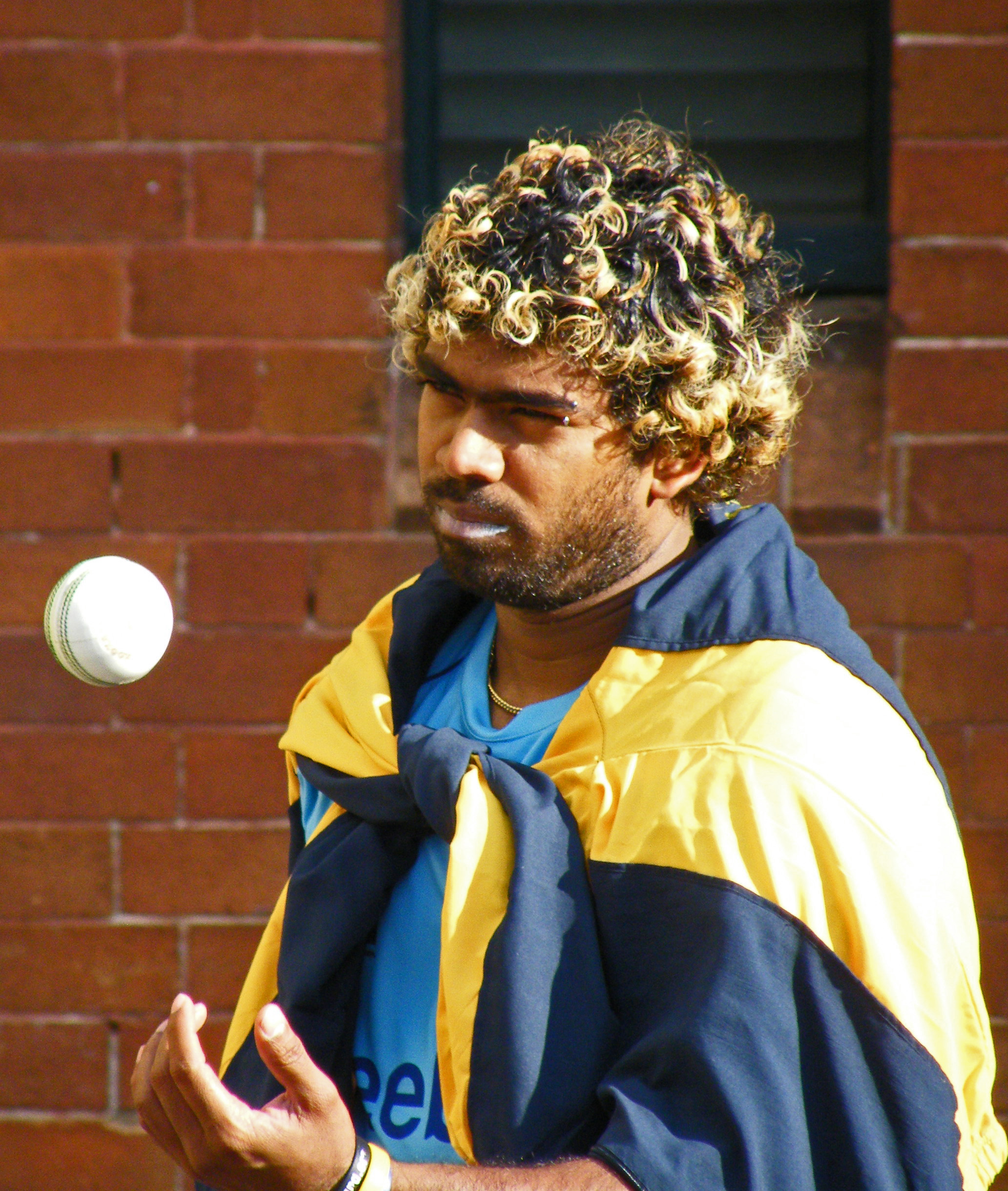 Sri Lankan cricketer Lasith Malinga tosses a cricket ball during a practice session on October 2010 at the Sydney Cricket Ground.